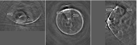 First reported thermoacoustic image of cancer in the human breast